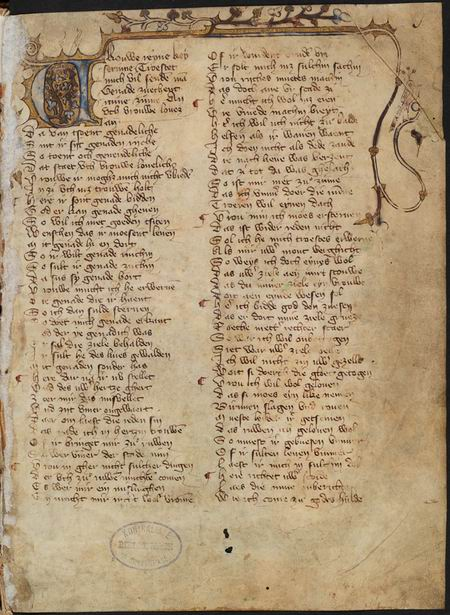 (approximate english translation) P. 001R of the "Hague" songs handwriting (about 1400;? Comes from Gelderland), with ventilated cap. Collection of the Royal Library in The Hague.